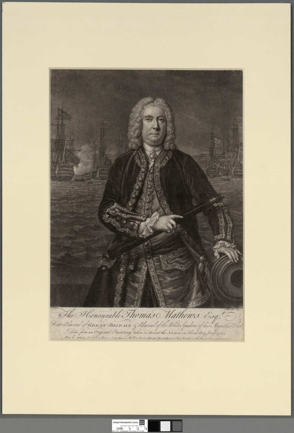 A portrait from the Welsh Portrait Collection at the National Library of Wales. Depicted person: Thomas Mathews – British officer of the Royal Navy from Wales